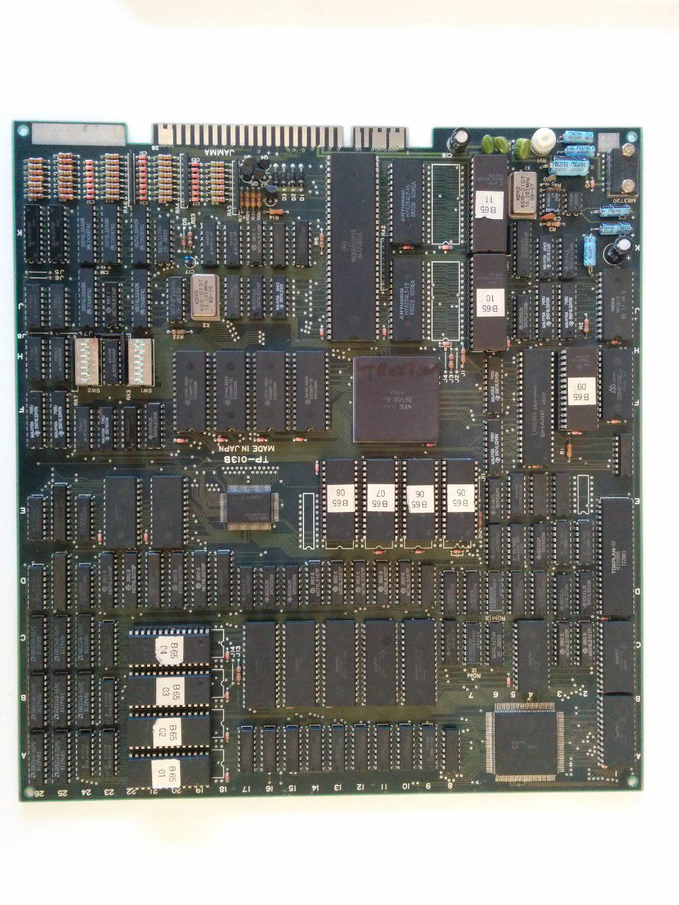 JAMMA card from Taito's TRUXTON arcade game 1988